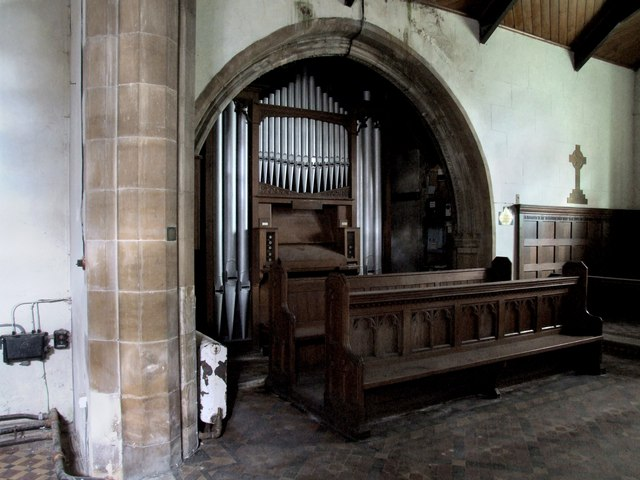 Interior of the Church of St Margaret, Keddington